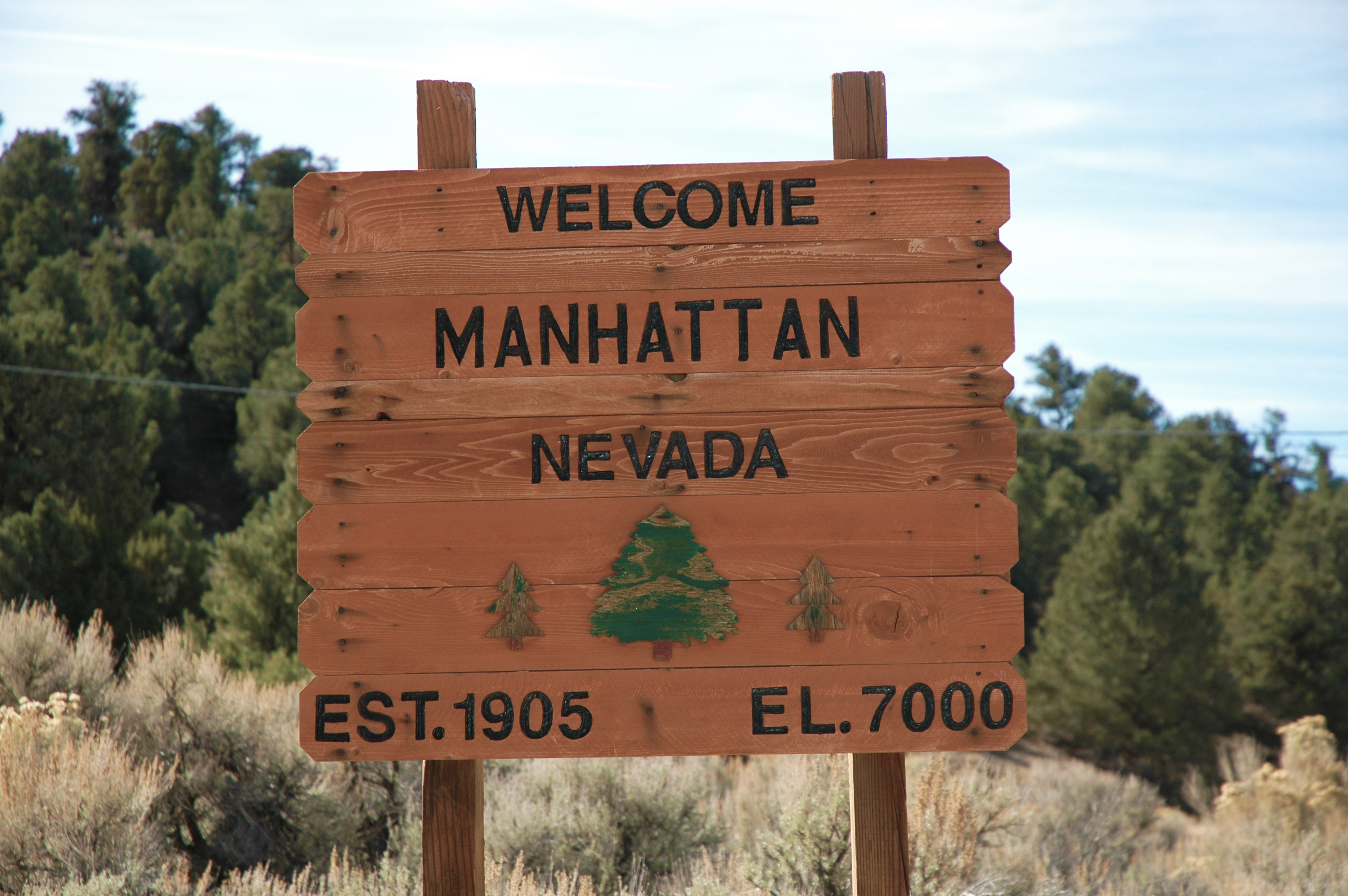 Manhattan NV-Welcome sign